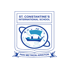 SCIS- Badge